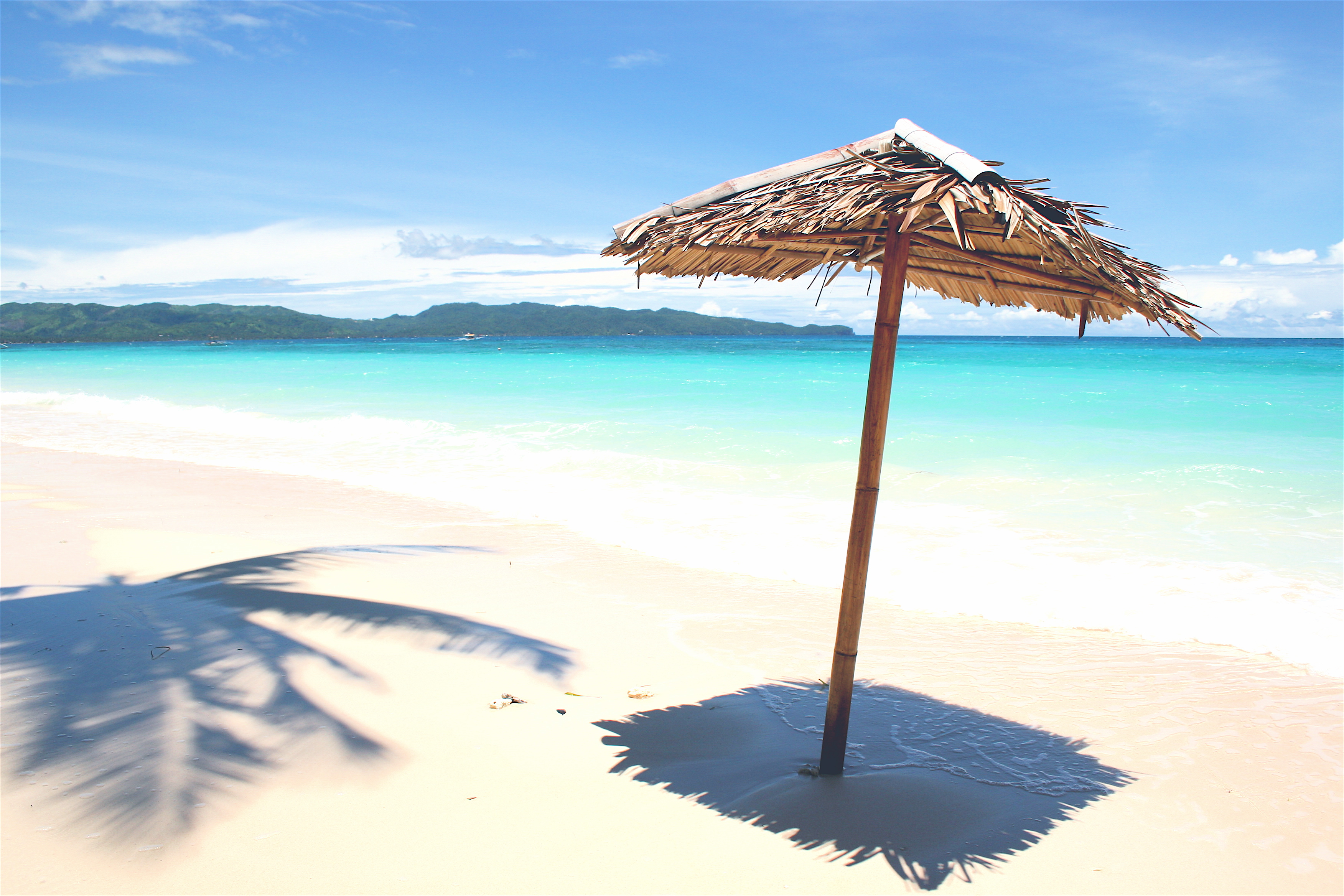 Beach scene, the Philippines. Featured in Explore, Aug. 2, 2007.